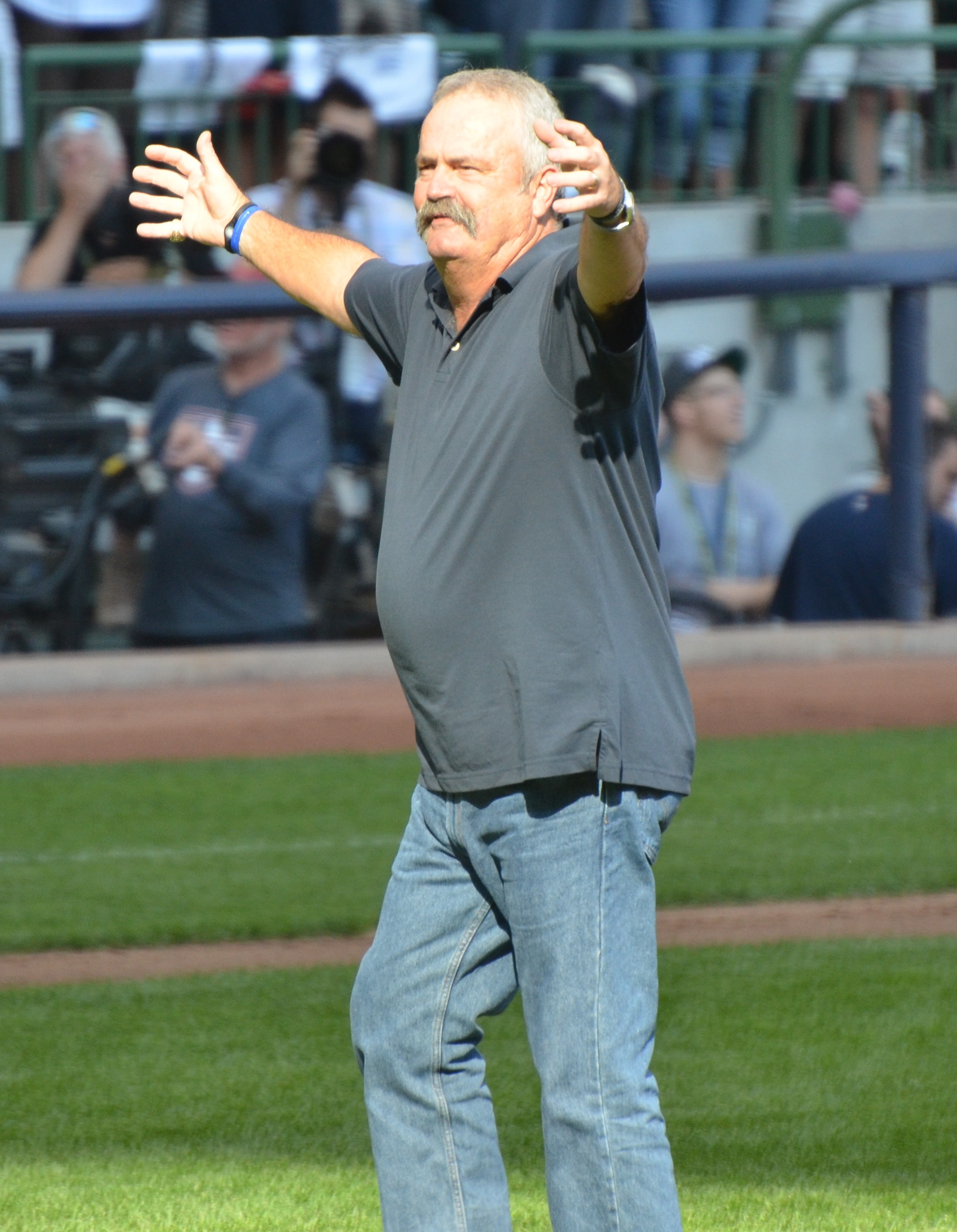 Former Milwaukee outfielder Stormin' Gorman Thomas in Beast Mode after he threw the first pitch for Game One in the 2011 NLCS.